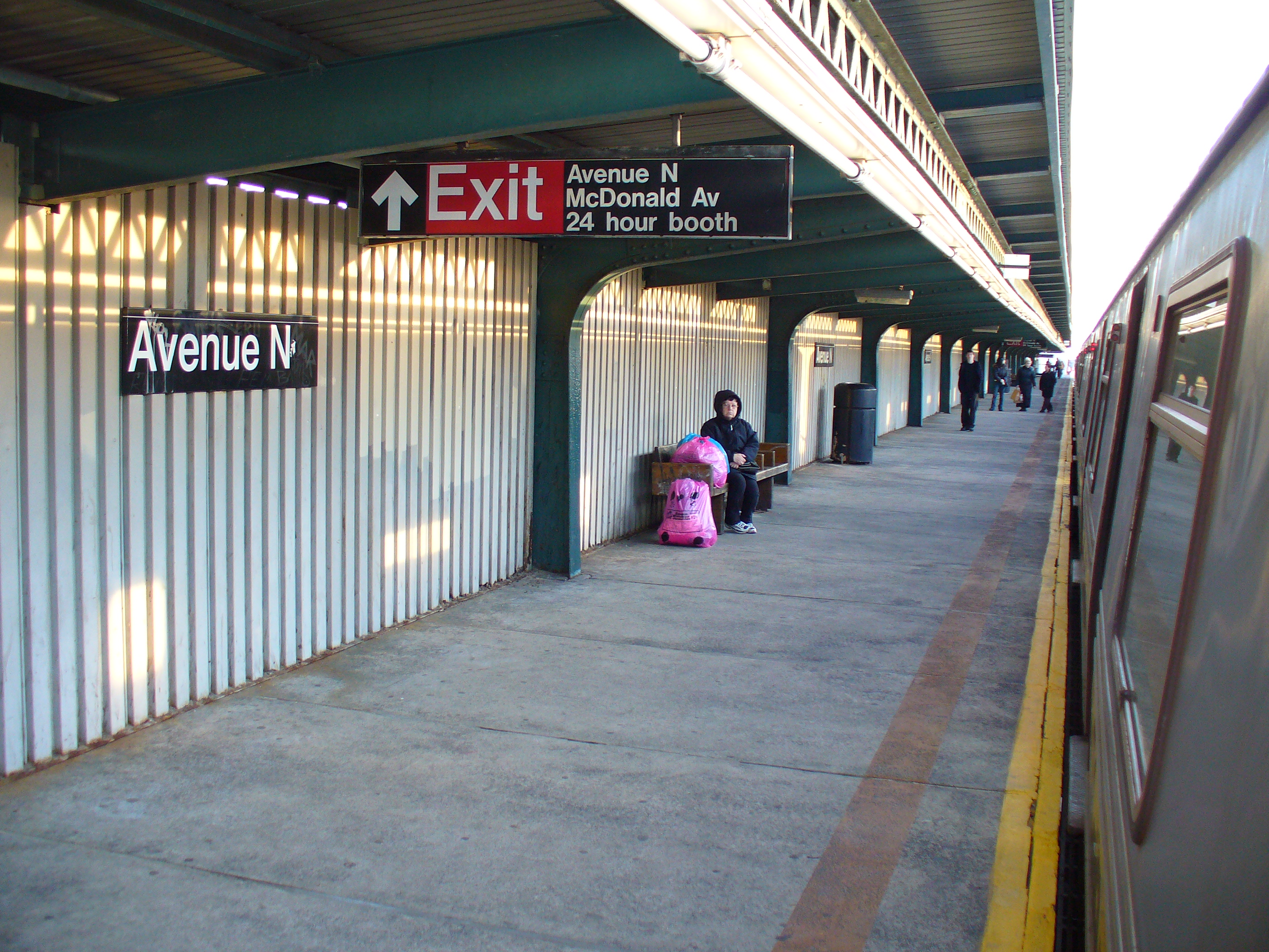 Avenue N F Line NYC Subway Station by David Shankbone